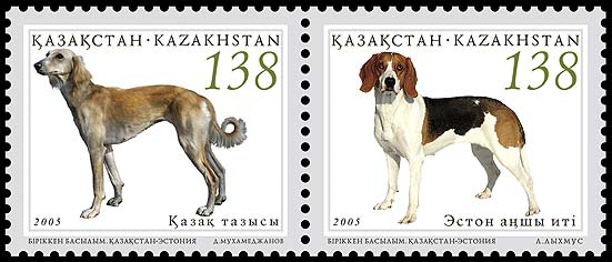 Stamp of Kazakhstan: Kazakh Tazi (left) and Estonian Hound (right)